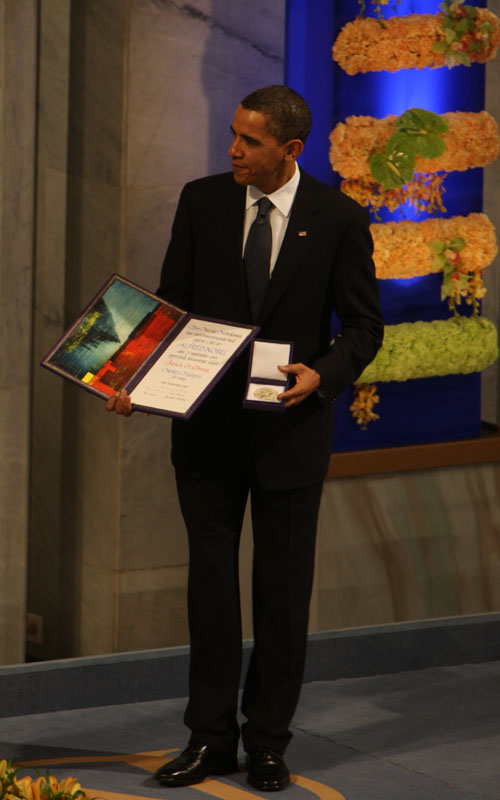 United States President Barack Obama with his Nobel Prize medal and diploma during the Nobel Peace Prize ceremony in Raadhuset Main Hall at Oslo City Hall in Norway on 10 December 2009. The diploma reads: "The Nobel Committee of the Norwegian Storting has, in accordance with the terms of the will set up by Alfred Nobel on the 27th of November 1895, awarded Barack H. Obama the Nobel Peace Prize for 2009."